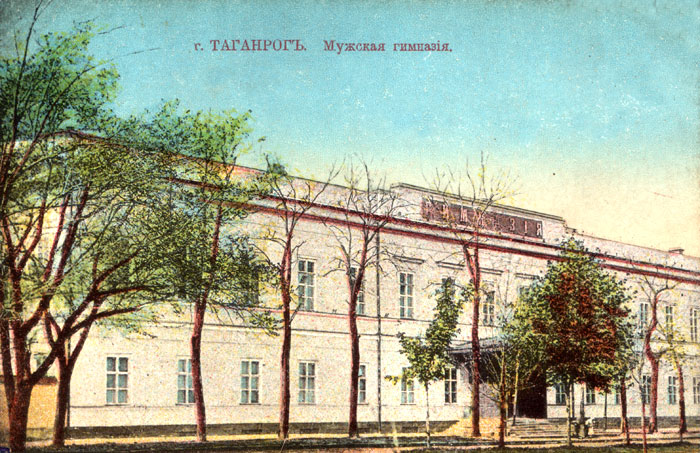 The Boys Gymnasium in Taganrog, on an old postcard